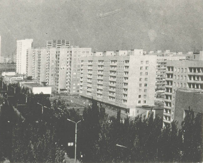 photo